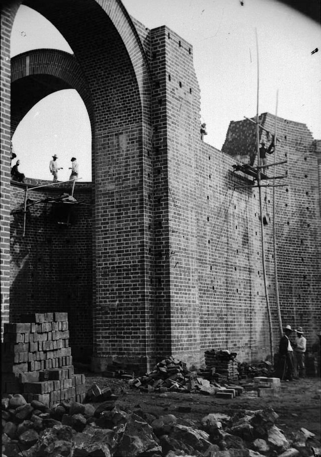 Construcción de los ábsides, alrededor de 1895 en la Catedral Metropolitana de Medellín. Fotógrafo Melitón Rodríguez.